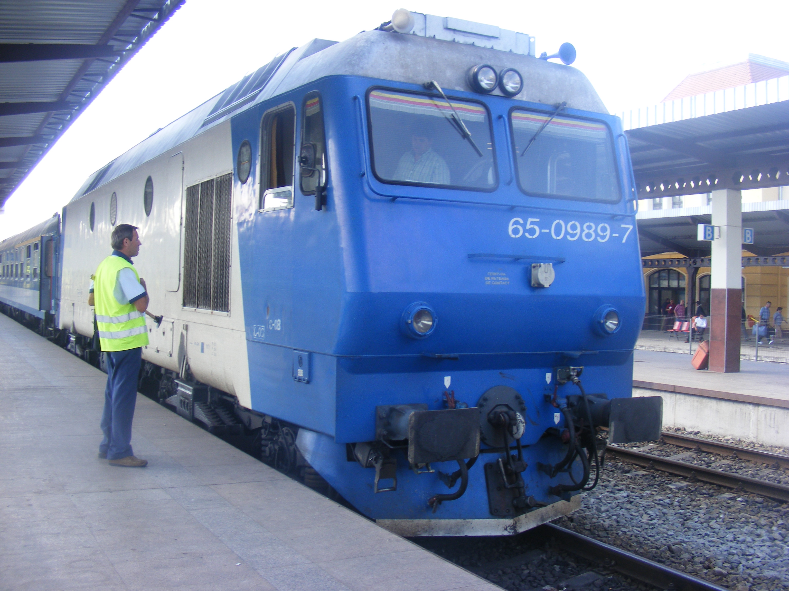 CFR GM 65-0989-7 in Oradea railway station, awaiting departue with a train to Debrecen